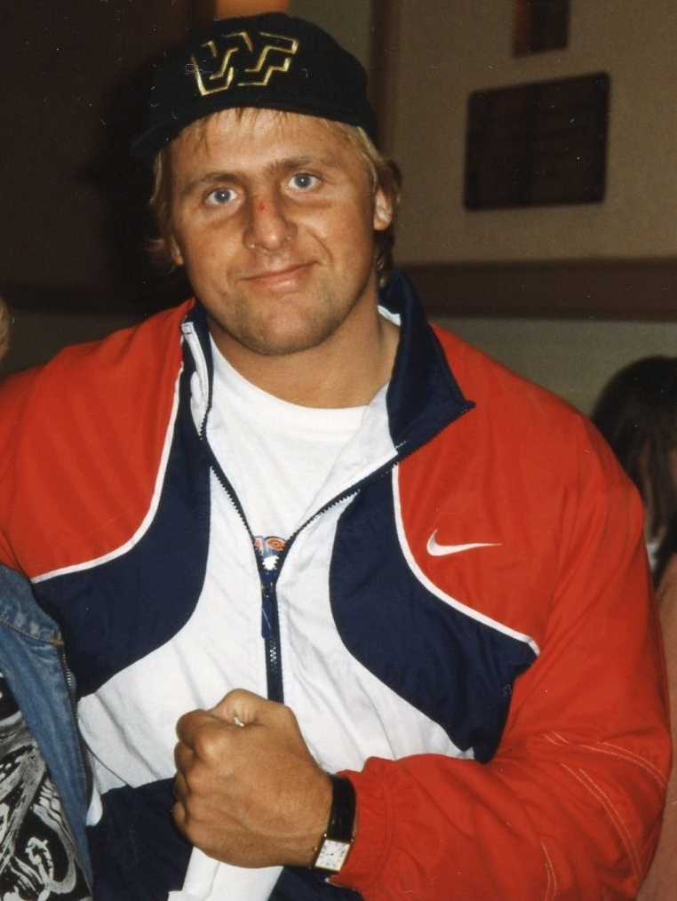 Pro wrestler Owen Hart posing with a fan (cropped)